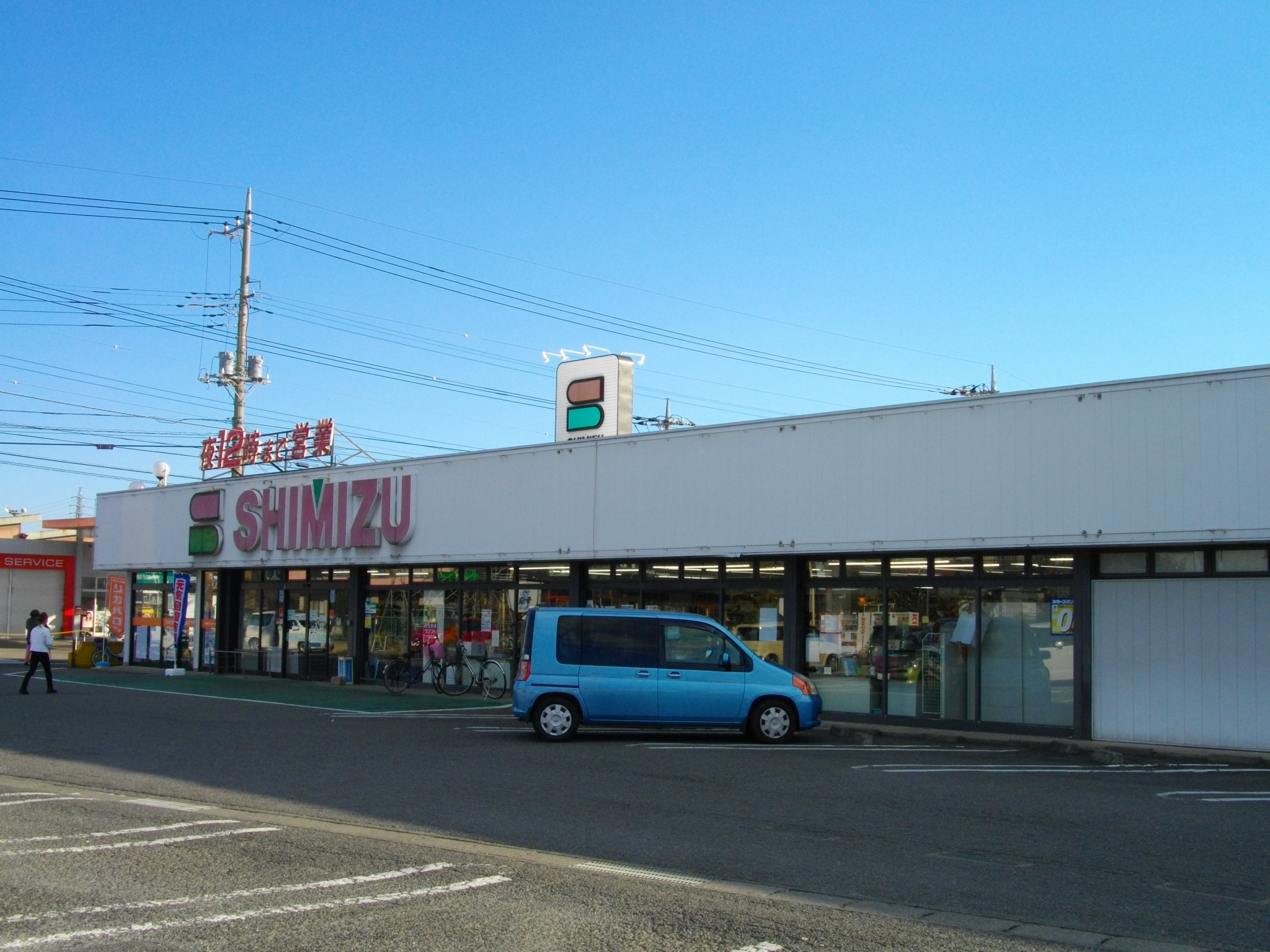 Shimizu Supermarket Aoyagi Branch